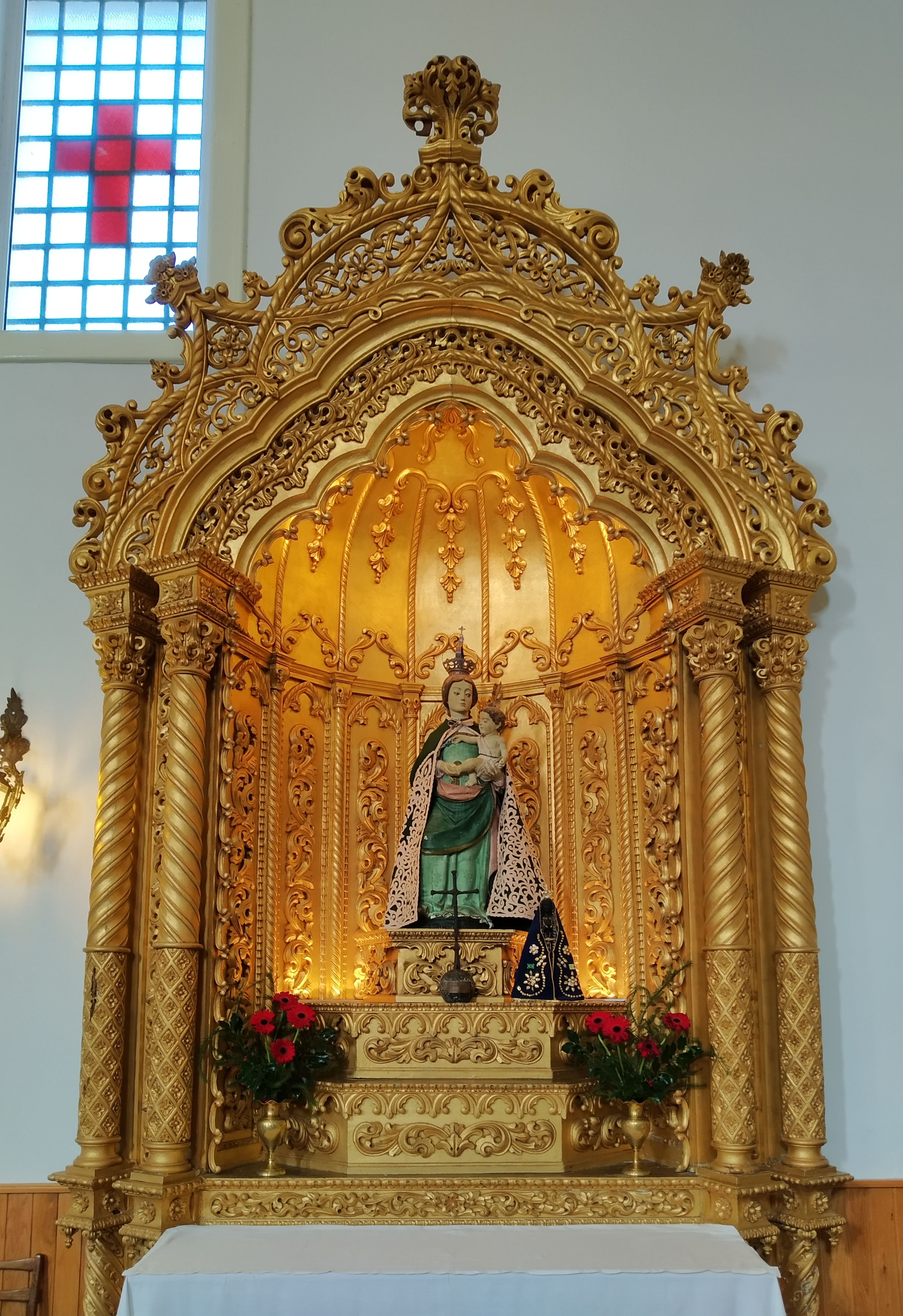 Image of Our Lady of Hope in the Parish Church of Belmonte, Portugal.